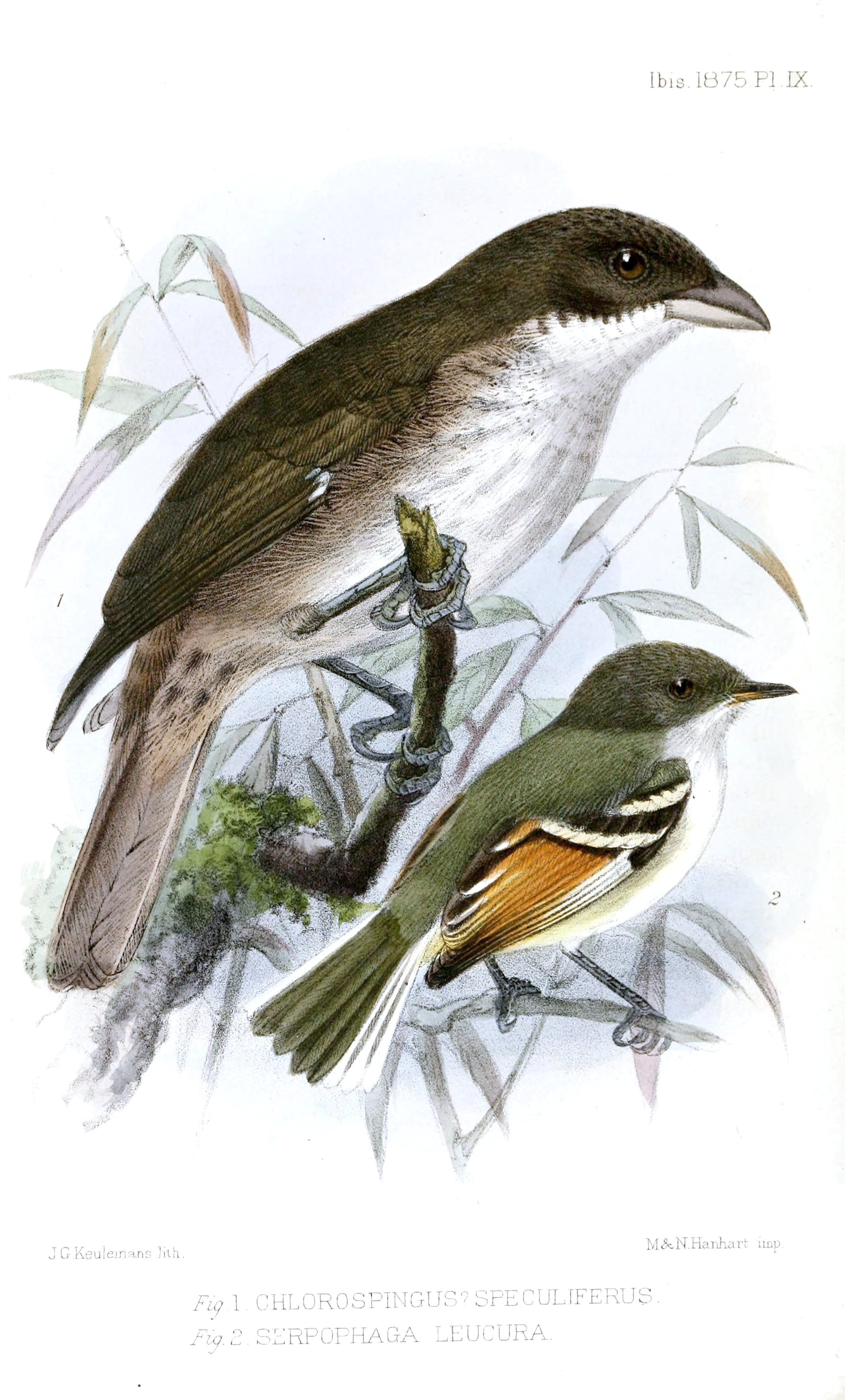 « Chlorospingus speculiferus » = Nesospingus speculiferus (Puerto Rican Tanager) « Serpophaga leucura » = Mecocerculus calopterus (Rufous-winged Tyrannulet)